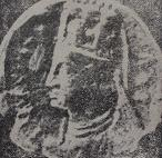 Erato